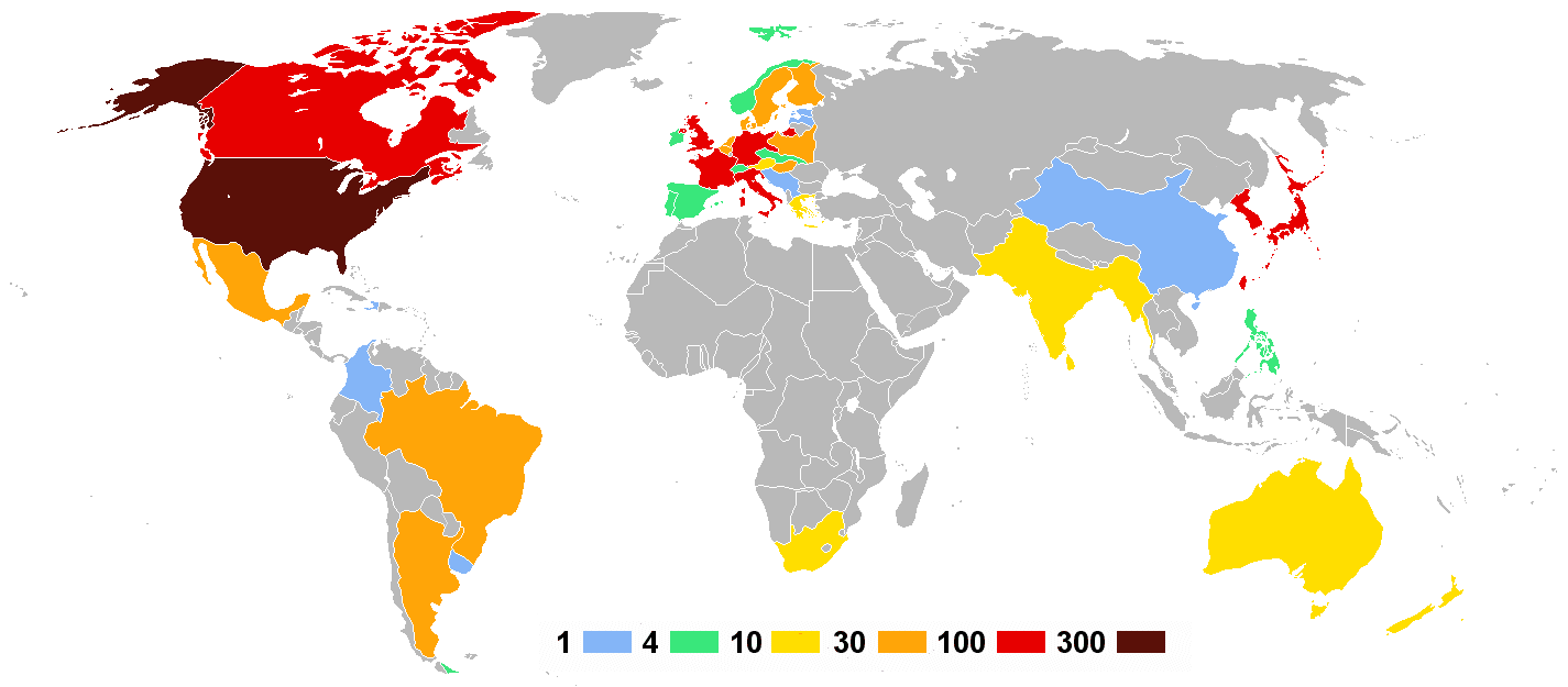 Countries that competed in the 1932 Summer Olympics by number of athletes sent. Derived from Image:1932_Summer_olympics_team_numbers.png and Image:BlankMap-World_1935.png